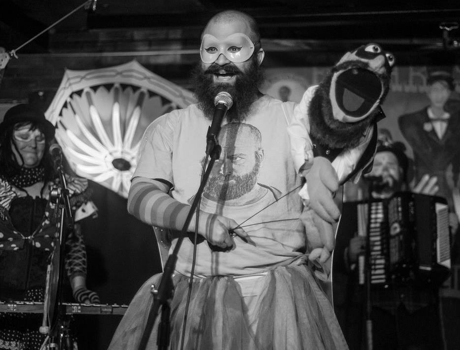 Black Scorpion and Li'l BS on tour with 999 EYES